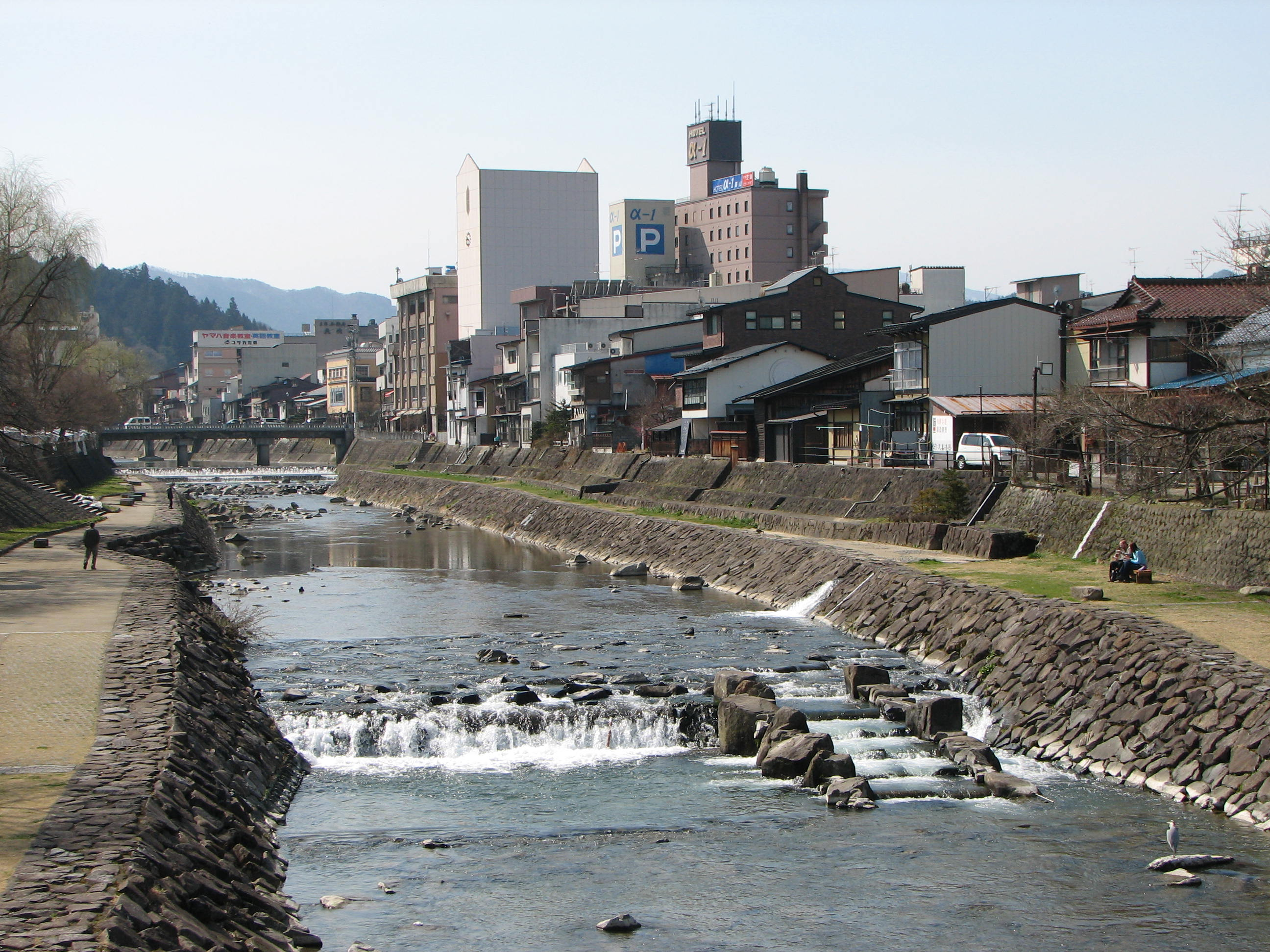 Miyagawa River, Takayama, Gifu Prefecture, Japan